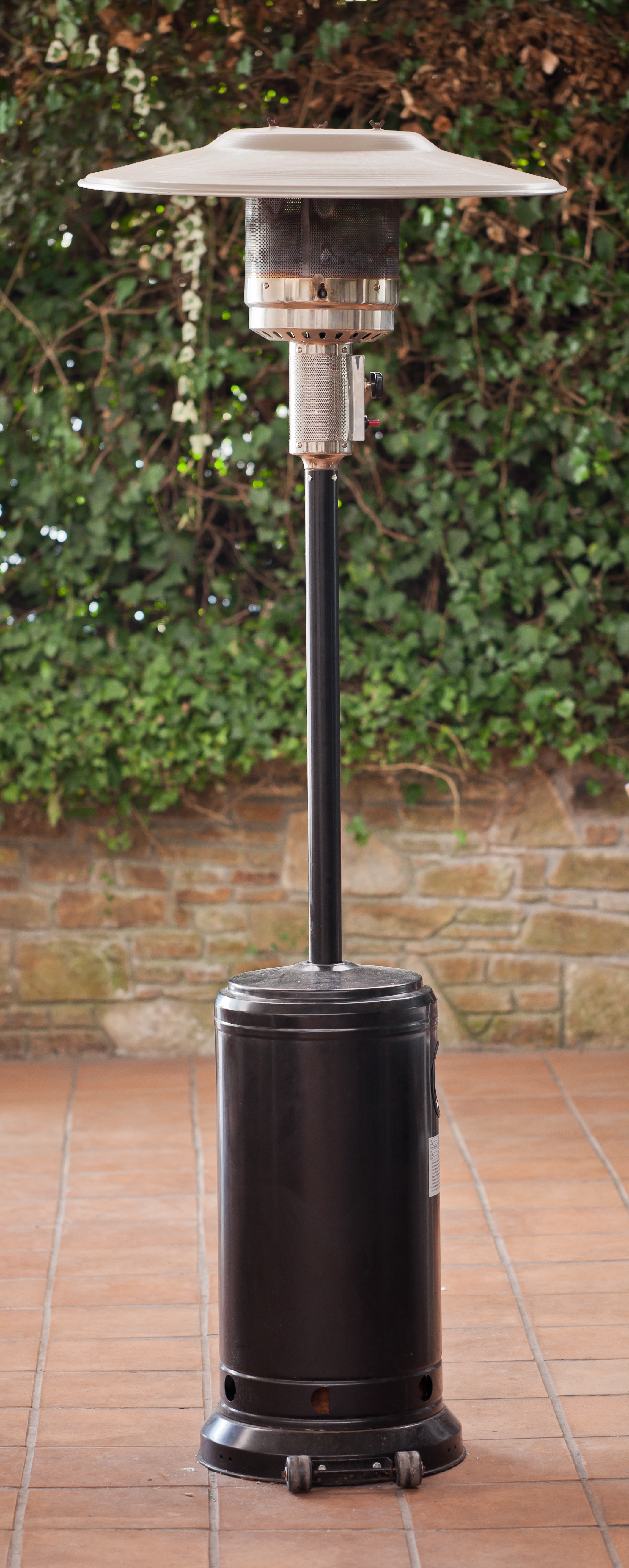 Stove. Santiago de Compostela, Galicia, SpainGalego: Estufa exterior de butano. Santiago de Compostela, Galiza